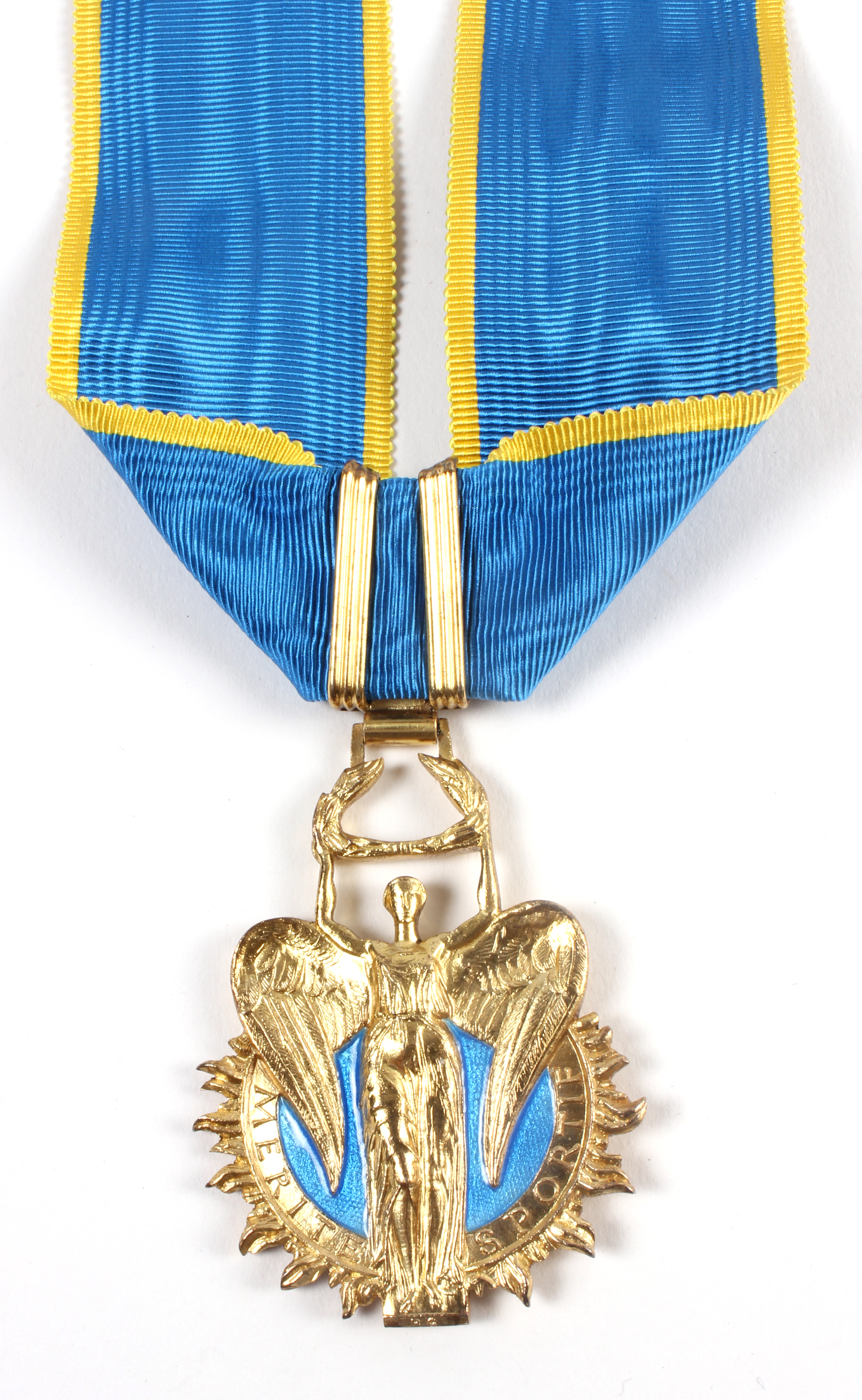 Republic of France- Commander of the Order of Sports Merit Merite Sportif Badge of the Order on a neck ribbon Case of issue Lapel rosette Newspaper clipping- "Le Figaro 17-6-60" "SIR EDMUND HILLARY - recoit les insignes - de commandeur du Merite sportif Sir Edmund Hillary, vainqueur de l’Everest, a recu, hier après-midi de M. Maurice Herzog, vainqueur de l’Annapurna et haut commissaire a la Jeunesse et aux sports, les insignes de commandeur du Merite sportif. Cette decoration, creee il ya deux ans, n’avait ete, jusqu’a present, decernee qu’a de tres grands sportifs francais et a deux etrangers. Apres la ceremonie, Maurice Herzog et Hillary ont longuement parle de la prochaine expedition de ce dernier dans l’Himalaya."